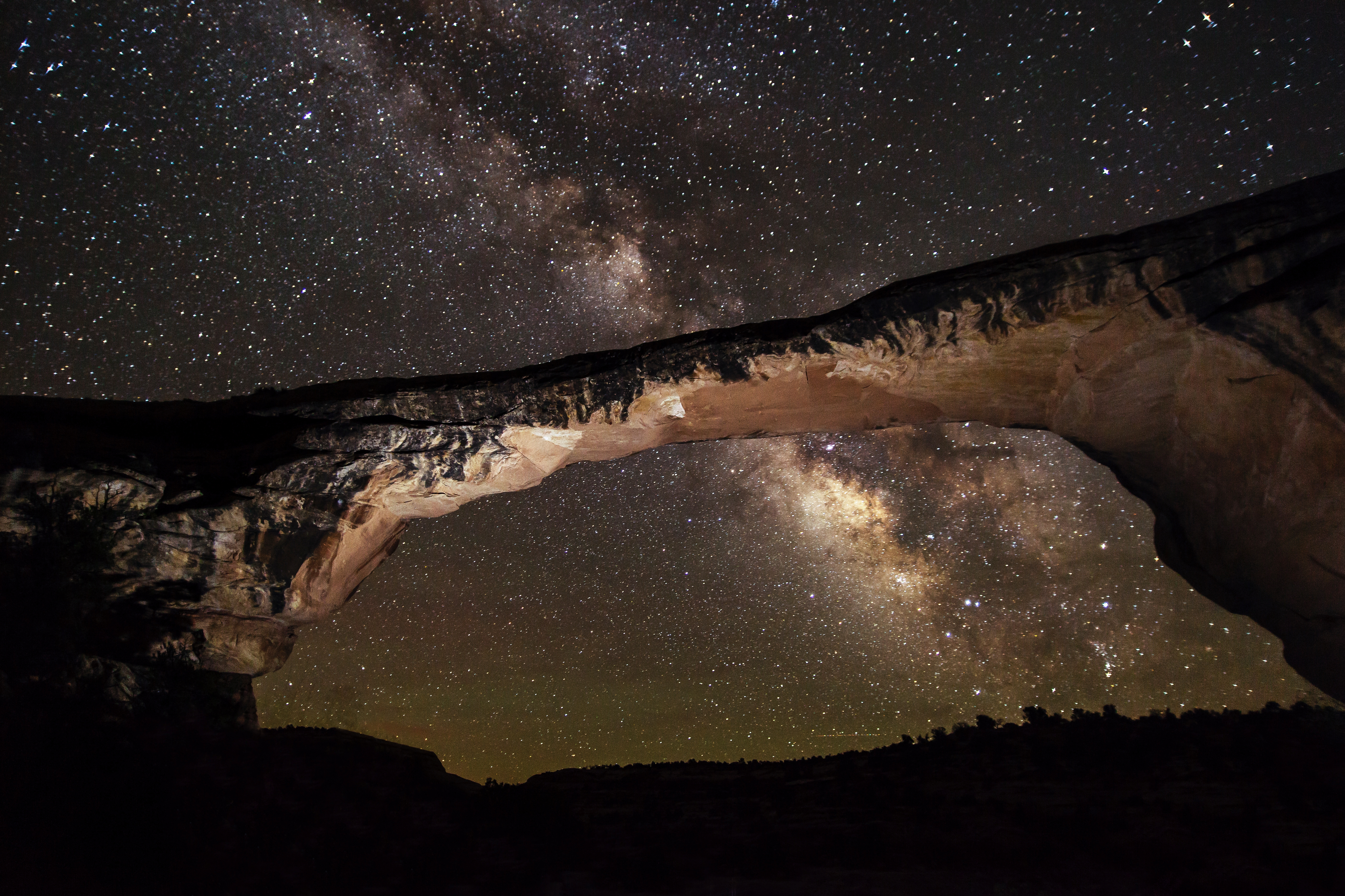 "Natural Bridges National Monument was named the world's first International Dark Sky Park in 2007."